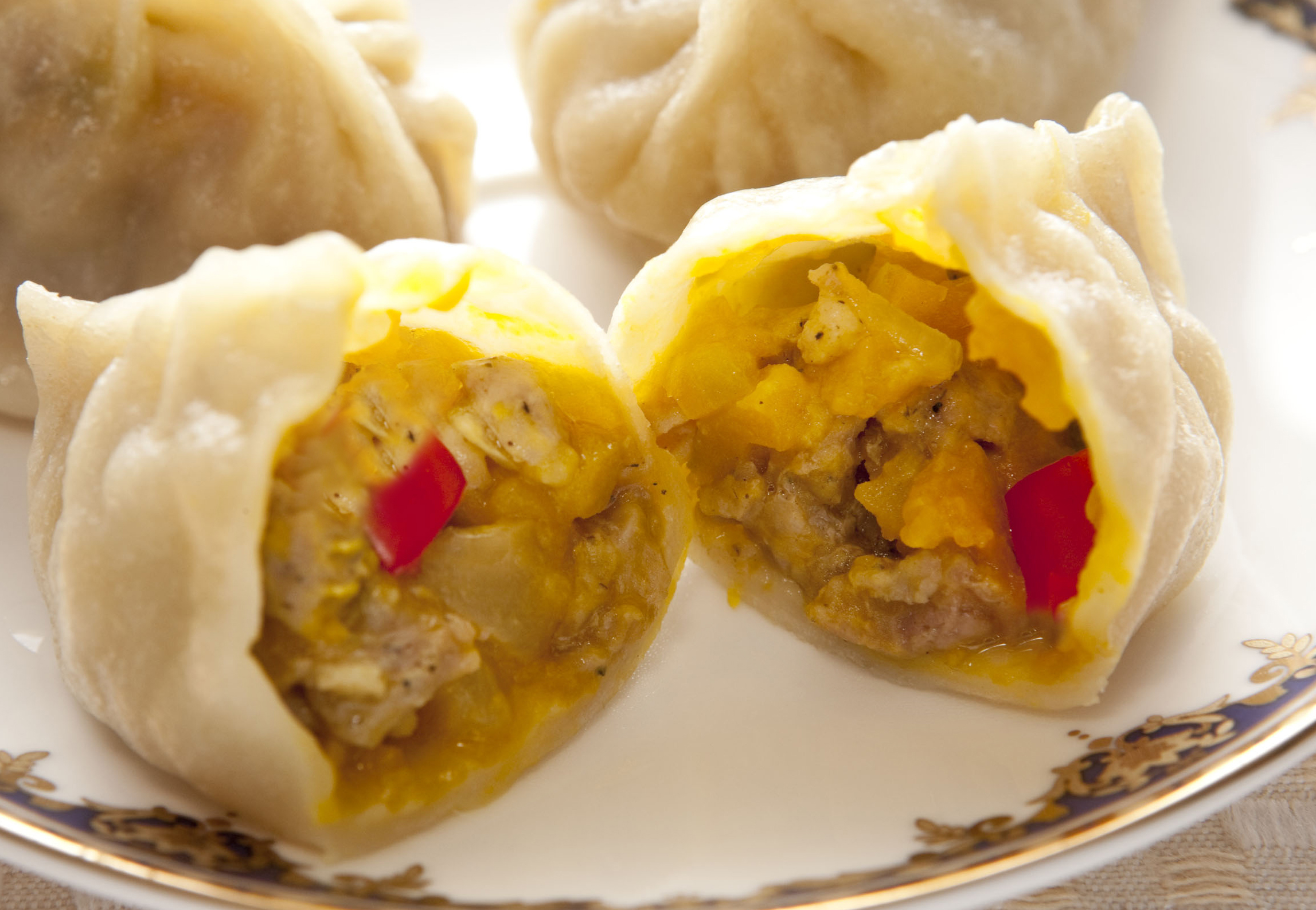 Uyghur food "kawa manta".